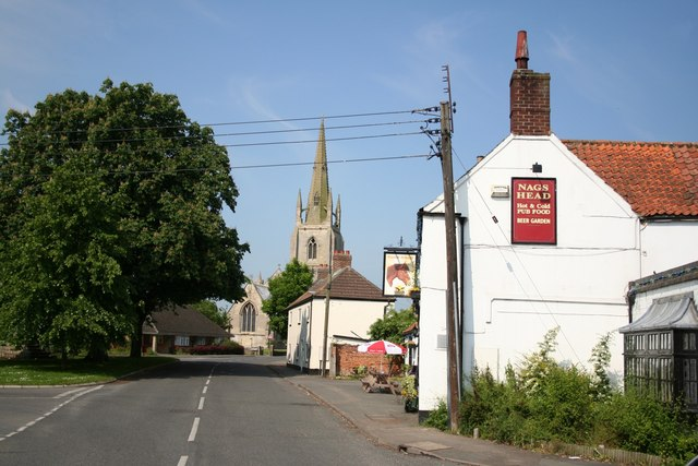 The Nags Head public house and St Andrew's Church at Helpringham, Lincolnshire, England.